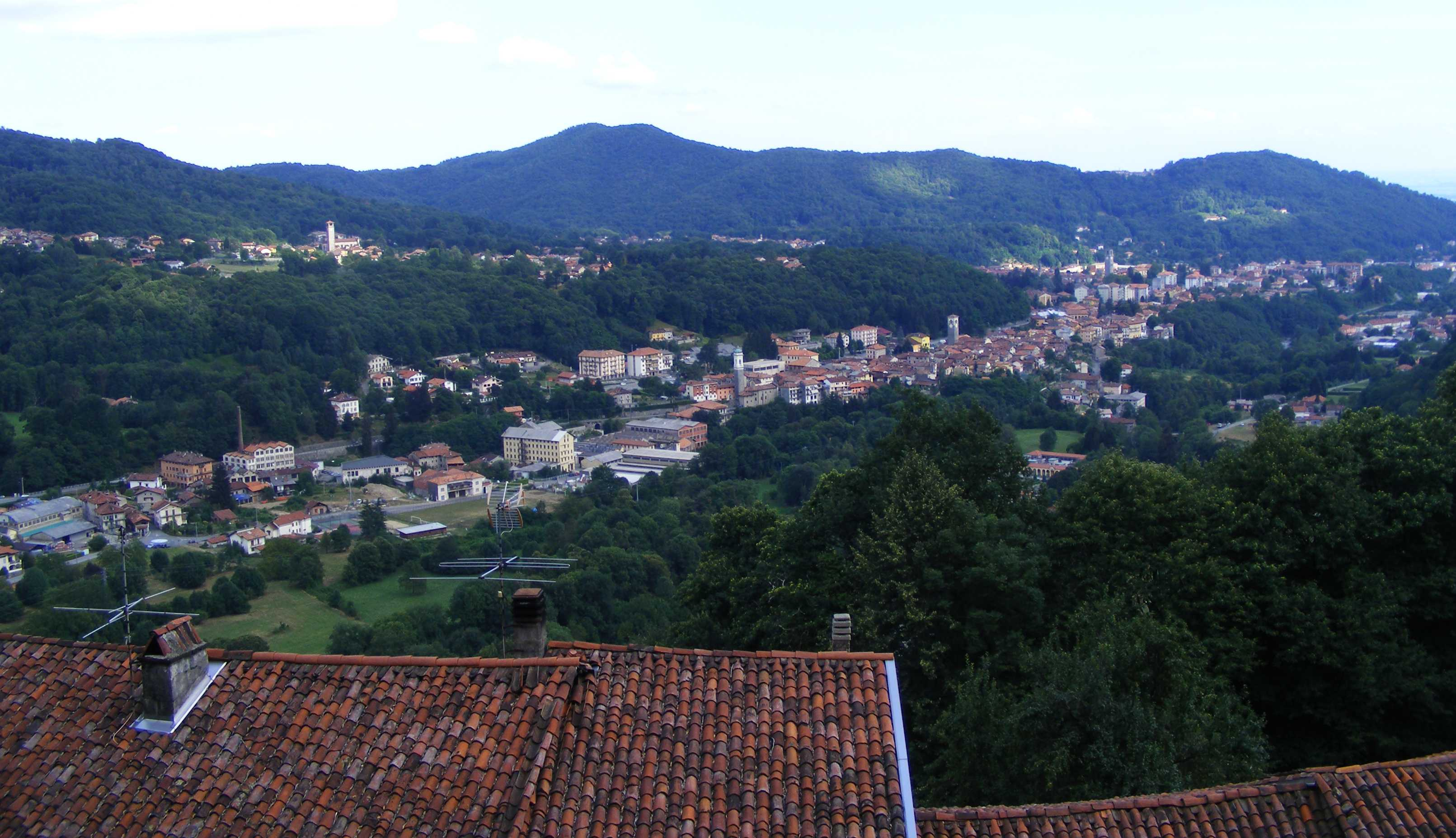 Sagliano Micca from Oneglie (BI, Italy)